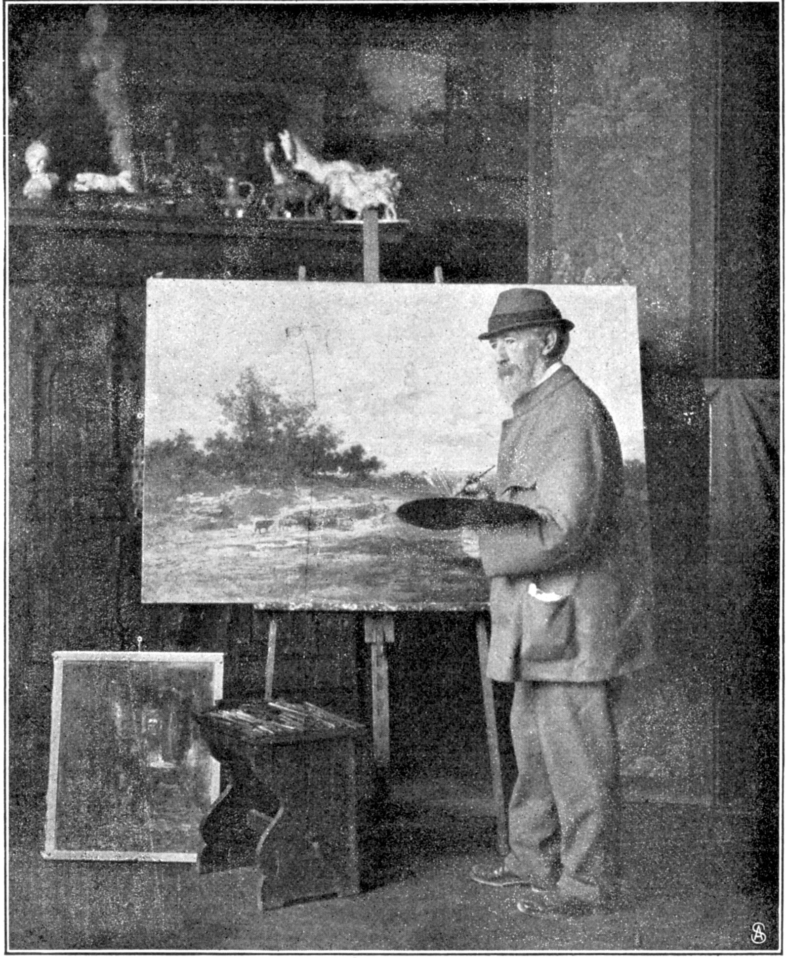 German painter Anton Burger